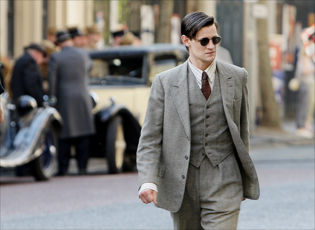 Matt Smith, the current Dr Who, in Belfast for the making of a new film, "Christopher And His Kind". The film traces the formative years of Christopher Isherwood, an aspiring writer escaping repressed English society for hedonistic, politically unstable Berlin in the 1930s. Despite being unable to speak a word of German, “Ishyvoo” discovers the decadent Weimar cabaret scene and becomes intoxicated by the city’s thriving gay subculture. Soon heart-broken by a doomed gay affair, he sets out to discover himself – and the writing voice of his classic 1930s novels.